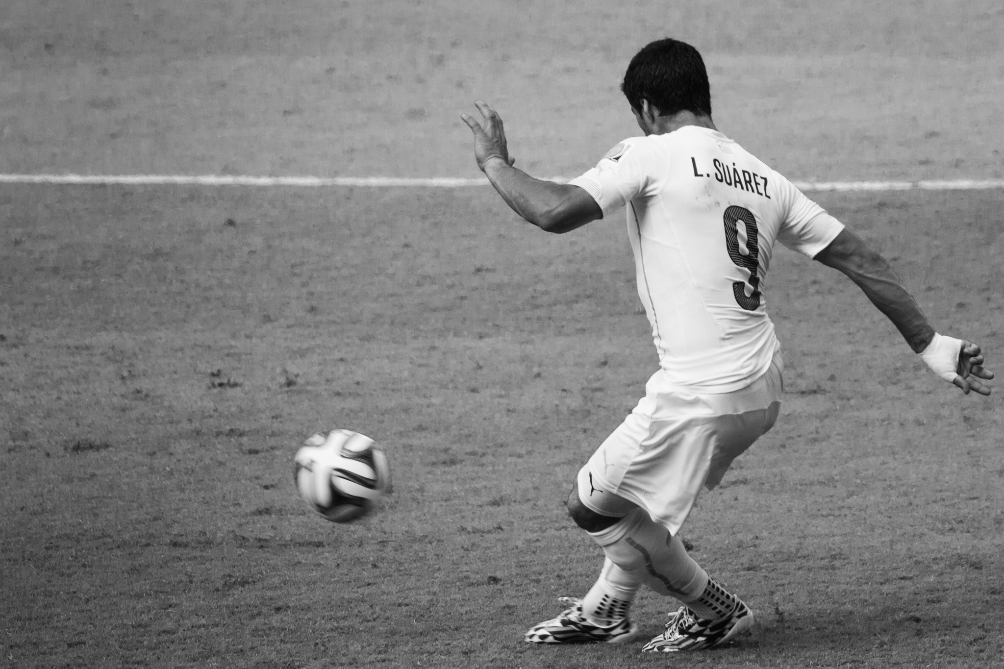 Italy and Uruguay match at the FIFA World Cup 2014-06-24, Arena das Dunas, Natal, Brazil.